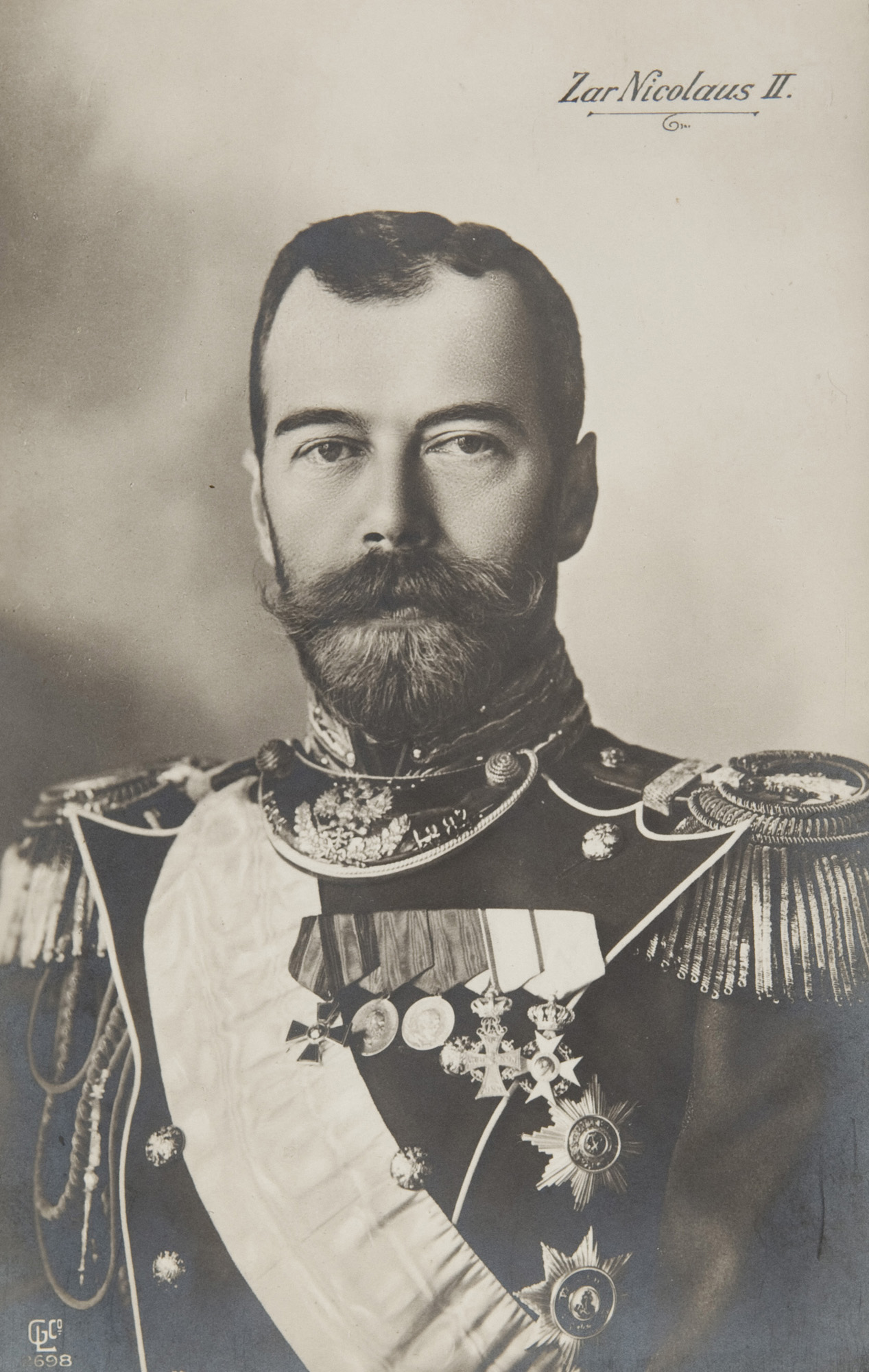 Artist: C.L. Co. Artist Bio: German publishing company, active early 20th century Creation Date: 1913 Process: postcard Credit Line: Gift of Stephen White Accession Number: 1983.073.033